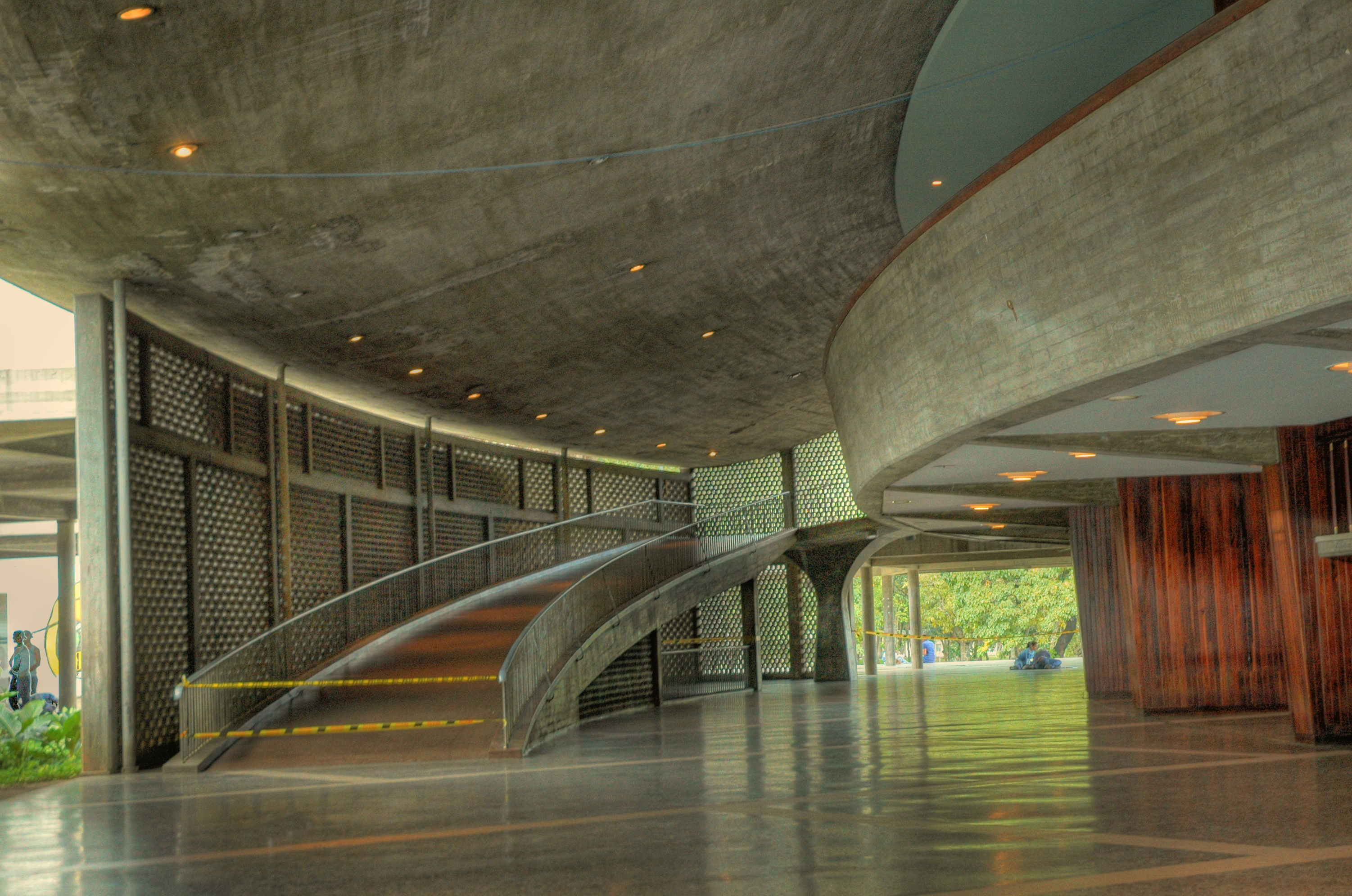 HDR de Pasillos del Aula Magna de la Universidad Central de Venezuela